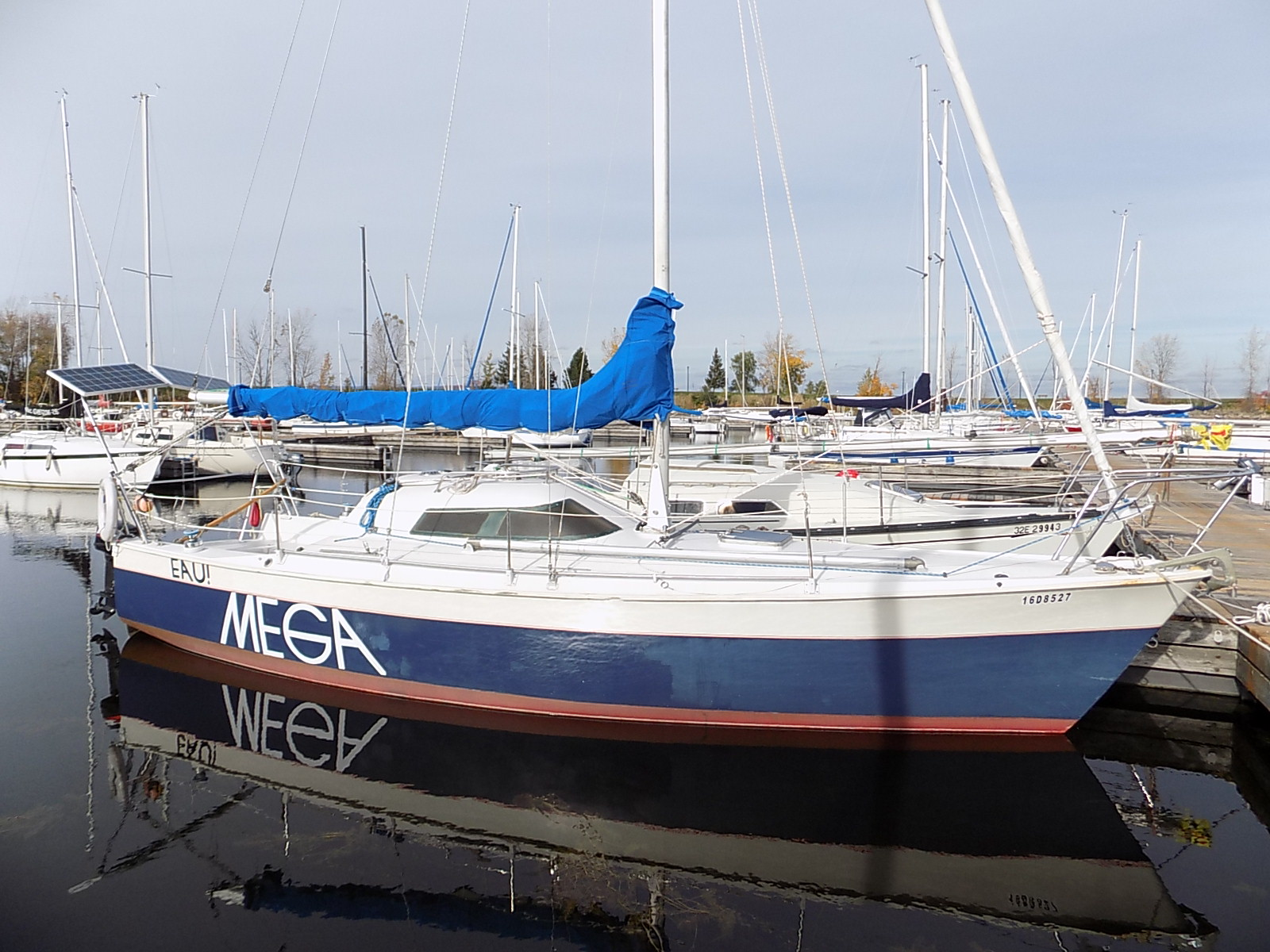 A C&C Mega 30 One Design sailboat named Eau! Mega